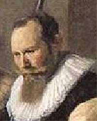 Traditional portait of Thomas Brooks, puritan preacher.